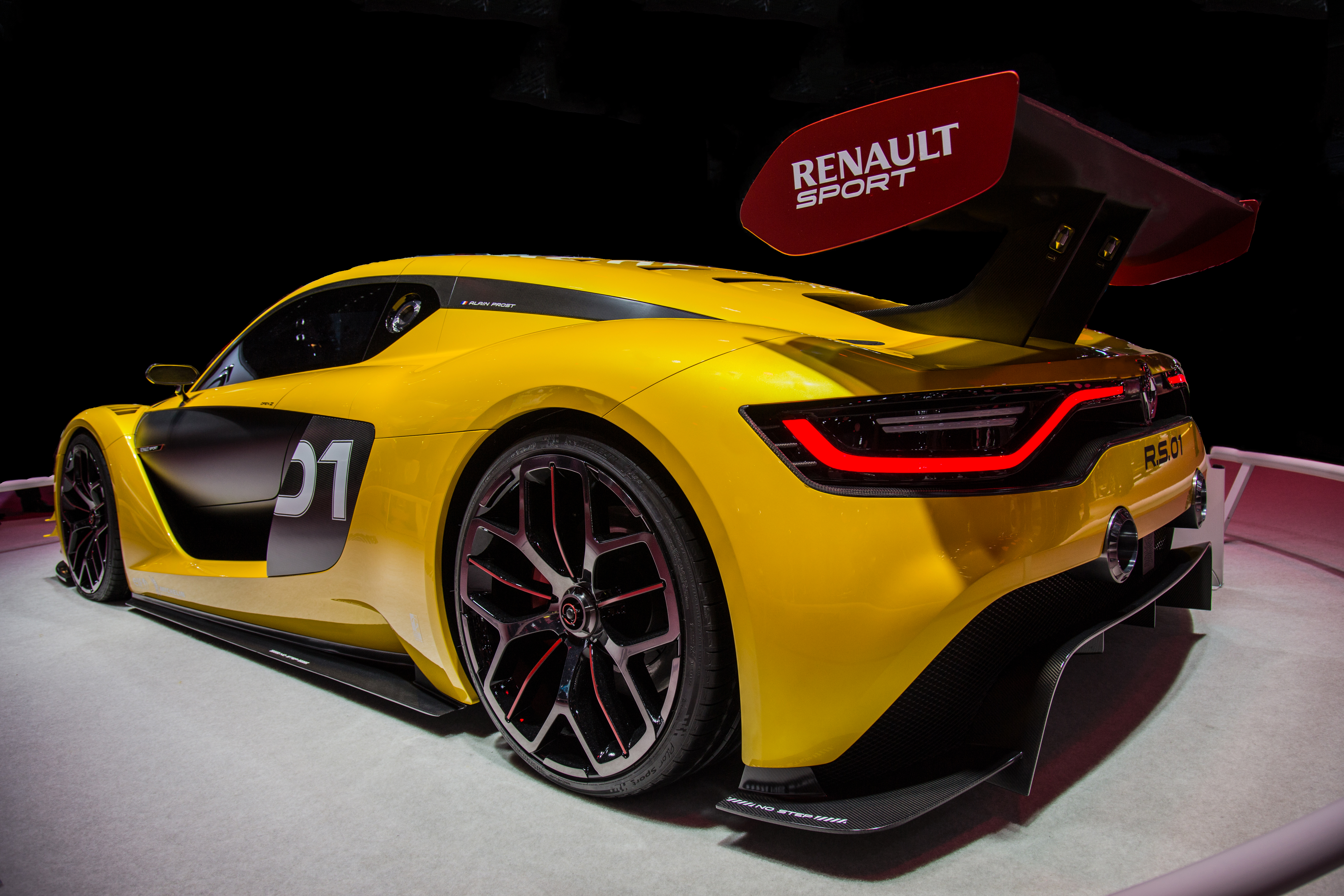 The 2014 Paris Mondial de l'Automobile or 2014 Paris Motor Show, from 4 October to 19 October, 'Automobile and Fashion' theme.